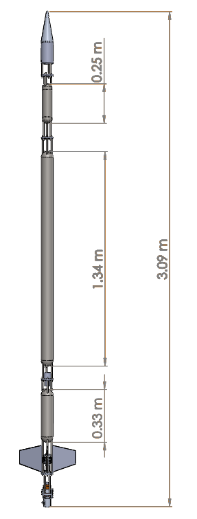 Vehicle Dimensions in meters